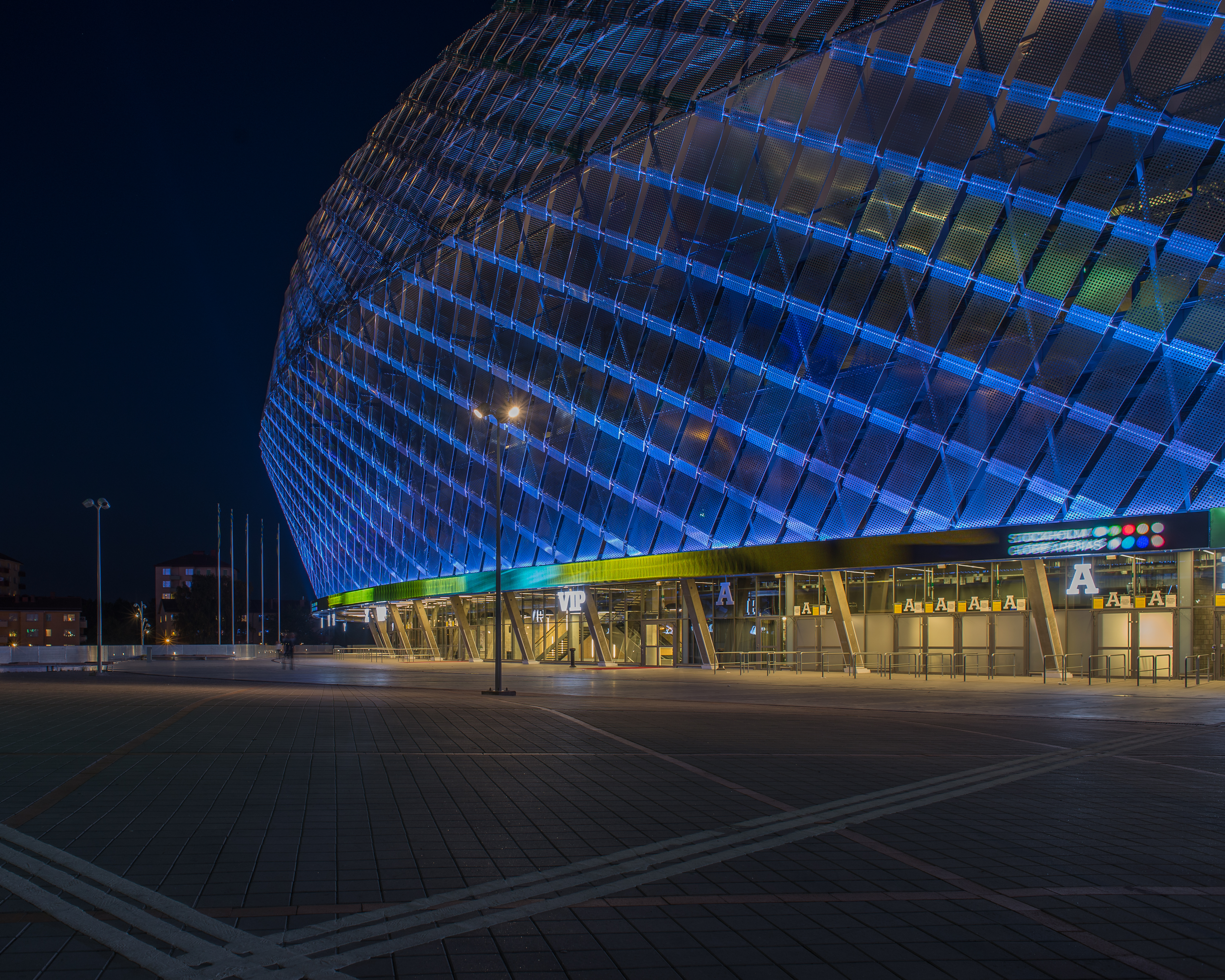 Tele2 Arena at night. North facade. Johanneshov, Stockholm.